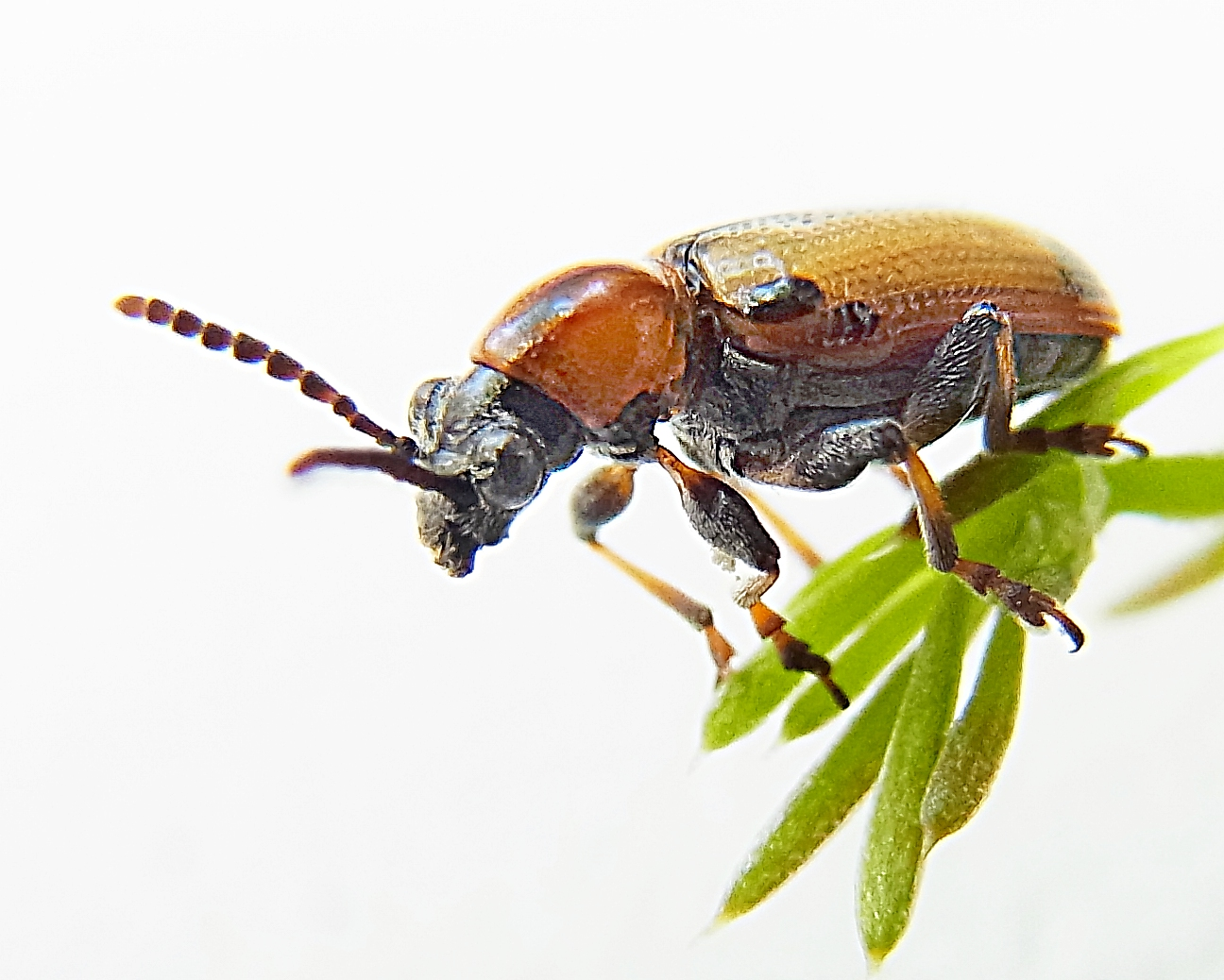 Crioceris paracenthesis from Spain, Catalonia, near 08779 La Llacuna, Barcelona at 2013-06-17